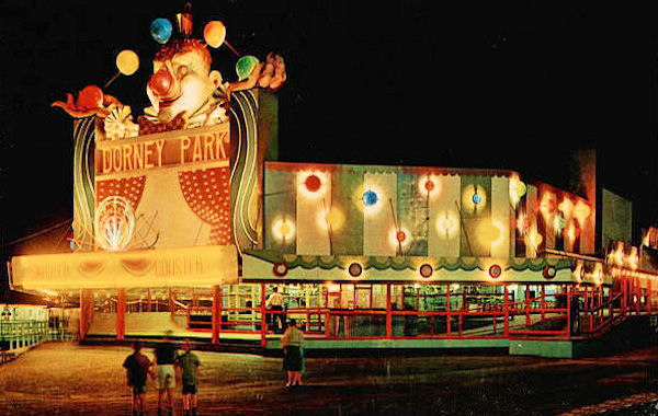 Main entrance to Dorney Park and Roller Coaster, scanned from 35mm slide taken about 1950